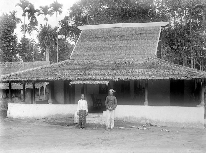 House of a sengaji, a local ruler in Galela